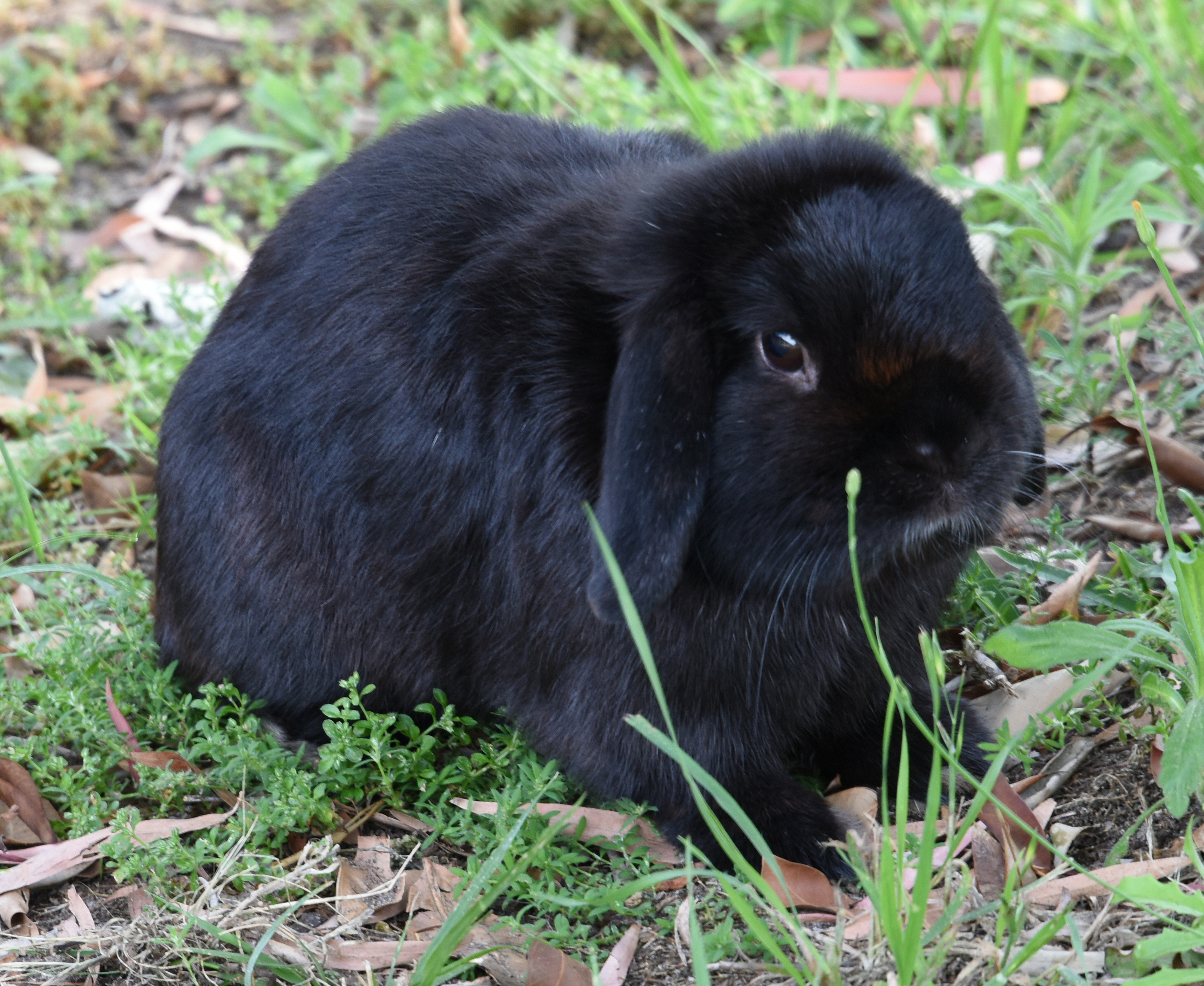 Lop eared rabbit on the loose, Doncaster Avenue, Kensington, Sydney